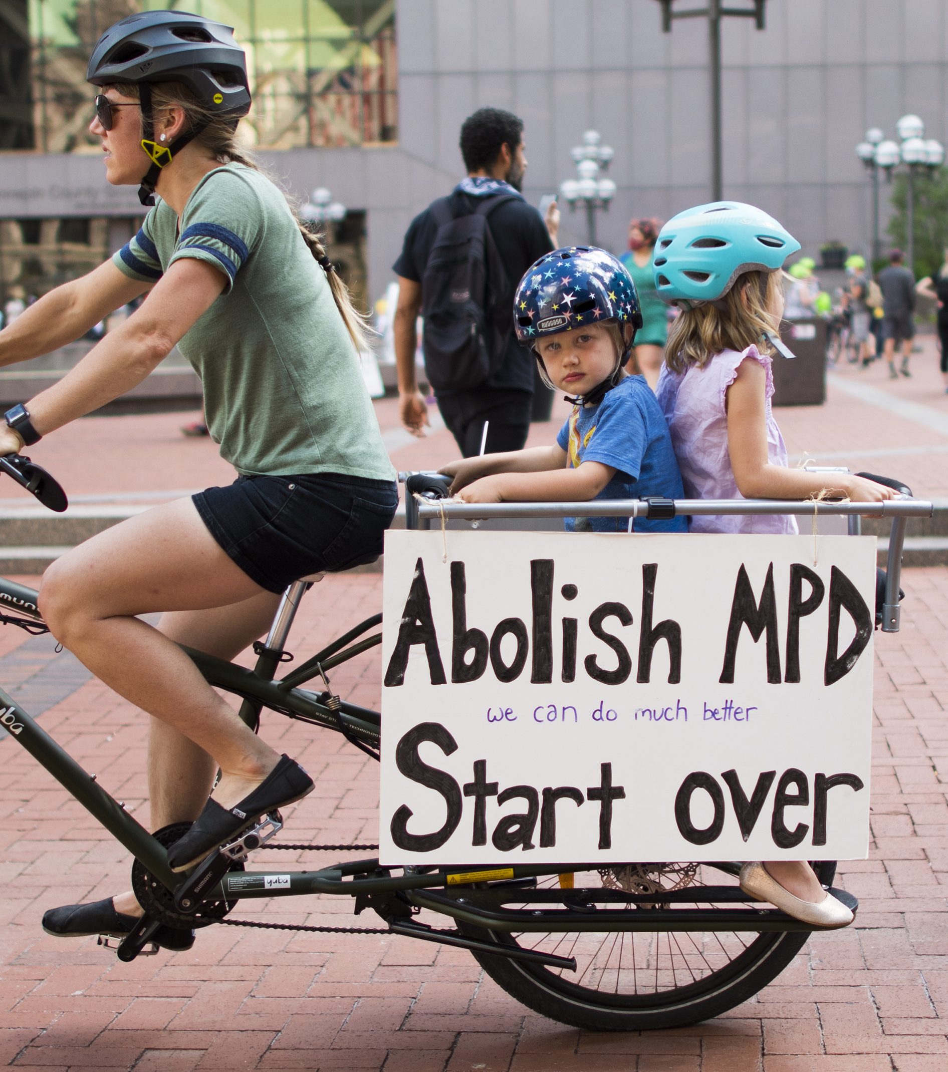 Minneapolis, Minnesota June 11, 2020 Around 1000 people gathered at the Hennepin County Government Building to demand justice for George Floyd. On May 25, Minneapolis Police officers arrested George Floyd, handcuffed him, then put a knee on his neck as he said he wasn't able to breath. George Floyd went unconscious with the knee on his neck despite pleas from bystanders for the police to stop. George Floyd died soon after. 2020-06-11 This is licensed under the Creative Commons Attribution License. Give attribution to: Fibonacci Blue